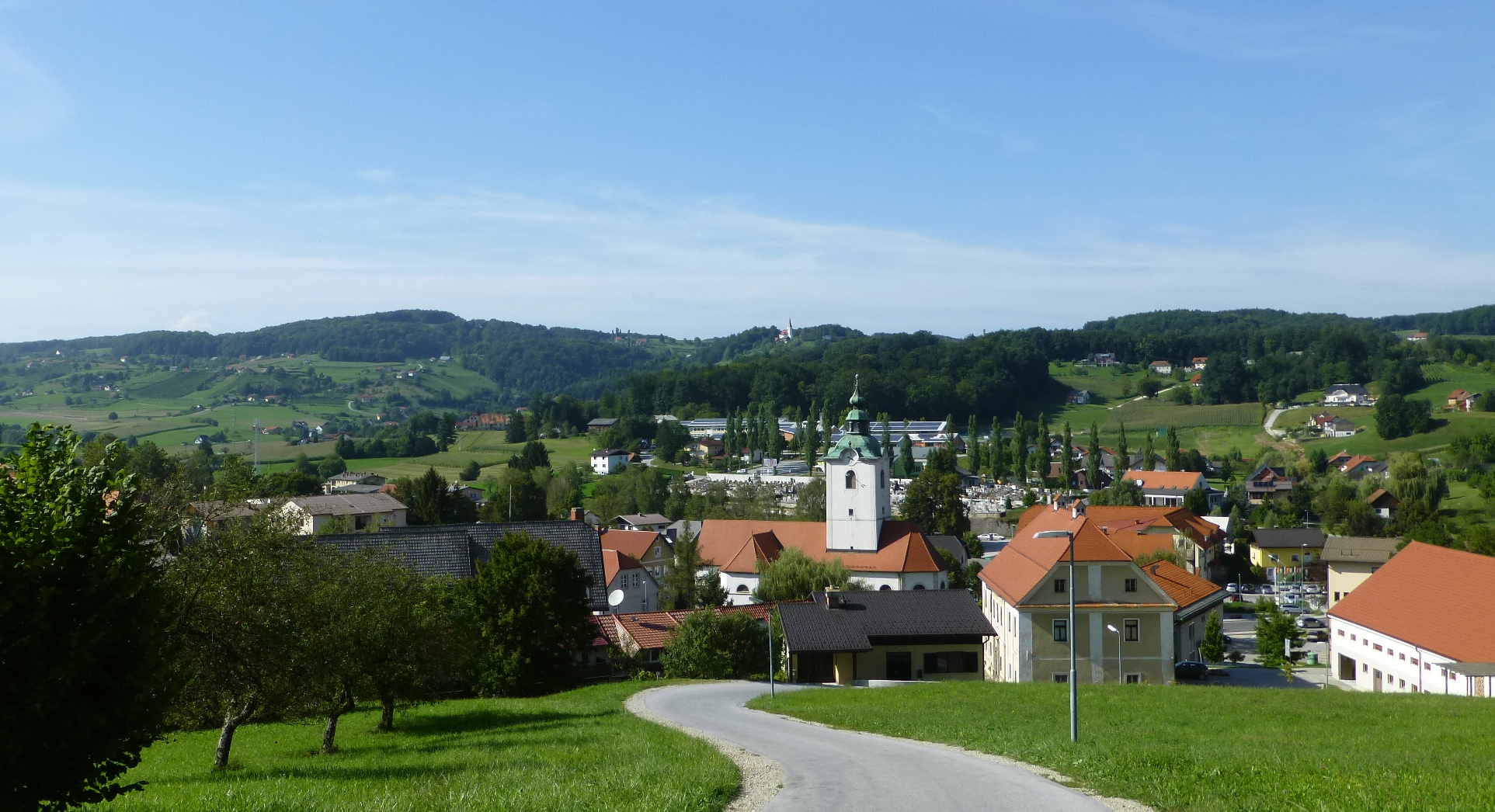 The village of Šmarje pri Jelšah. Parish church of the Virgin Mary. Slovenia